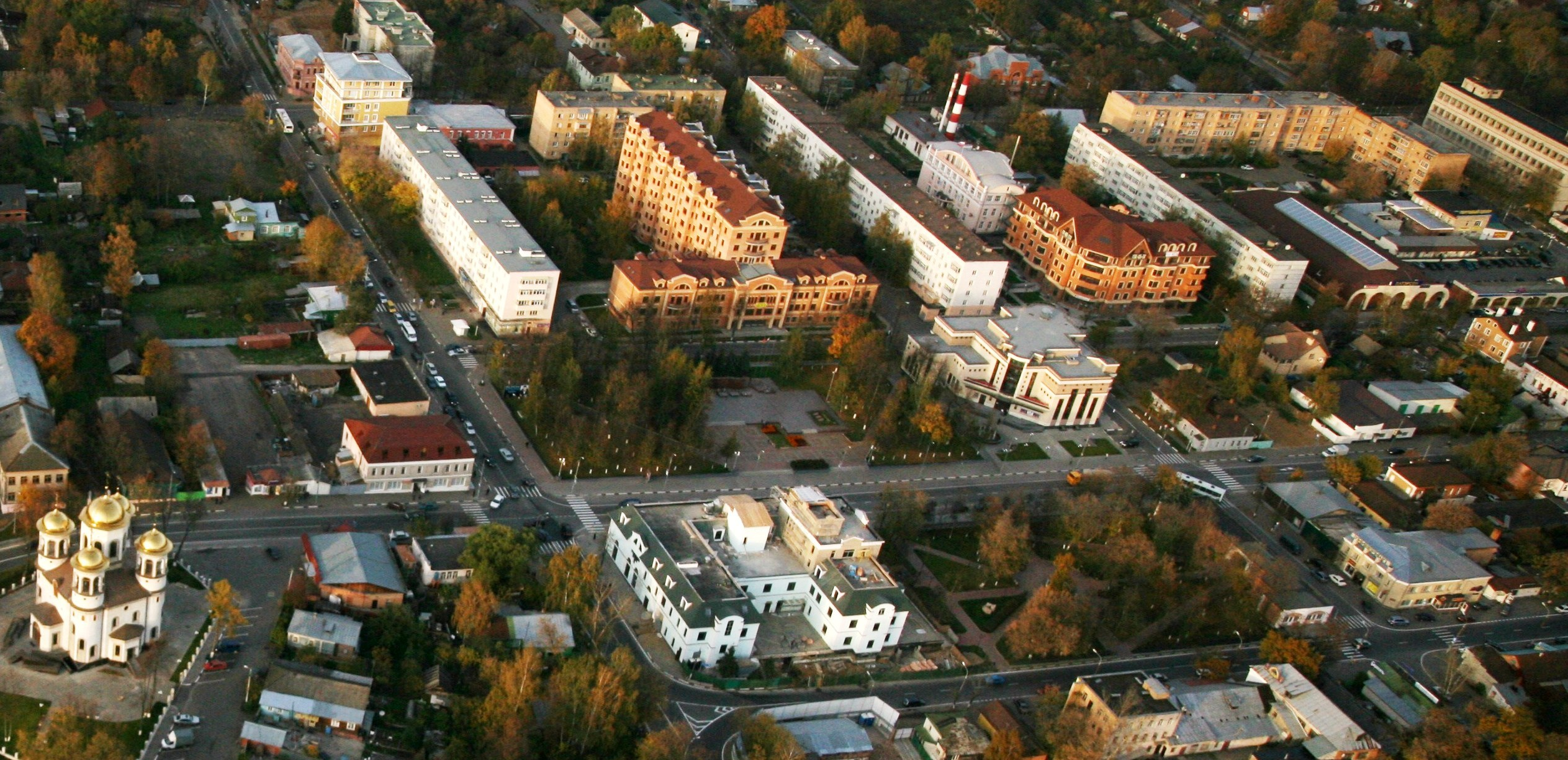 Вид центральной части Звенигорода